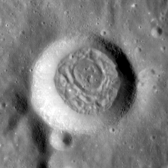 Crater Kopff C on the Moon, between Mare Orientale and Lacus Veris. It has signs of a concentric craters. Its diameter is 14 km. It is number 101 in the catalogue of concentric craters by Trang (2014) (p. 146–149) and not included in the catalogue by Wood, 1978. Photo by Lunar Reconnaissance Orbiter, made with Wide Angle Camera on 30 May 2010 from altitude 44 km. Sun elevation is 26.2°. Width of the photo is 22 km, north is approximately up.